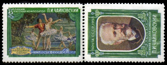 An example of 'timbre couché': a pair of USSR 1958 stamps, International musical competition named after P. Chaikovsky.